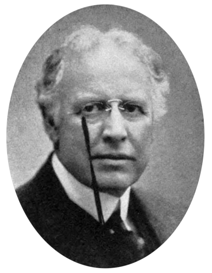 Van Dyke Brooke, né Stewart McKerrow (22 June 1859–17 September 1921, age 62) was an early American actor, screenwriter and film director